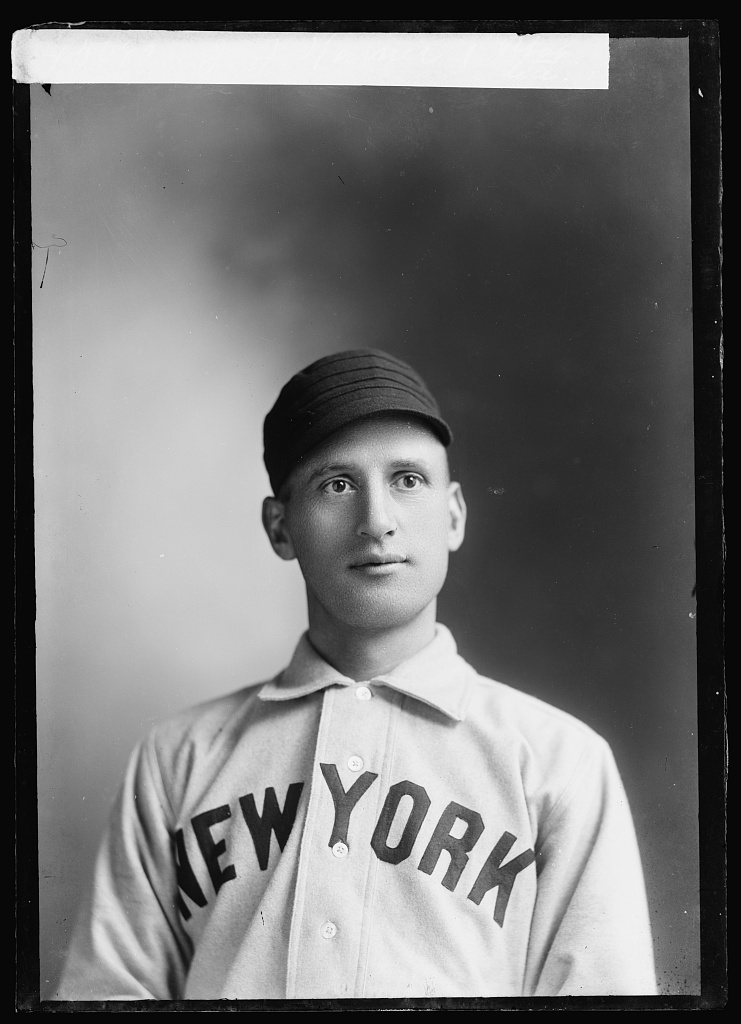 Jack warner in NY Giants uniform photographed by C. M. Bell Studio